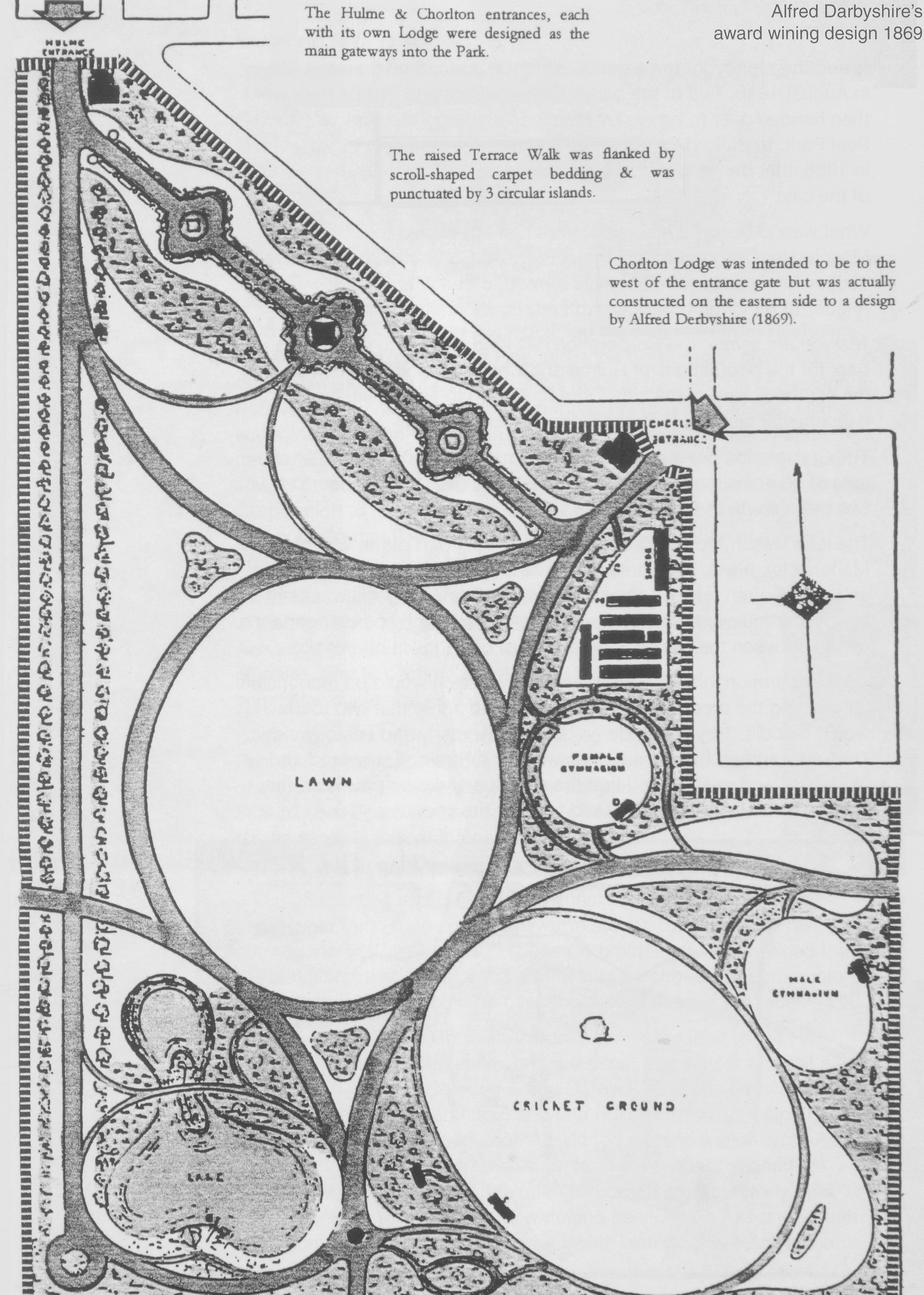 Plan of Alexandra Park, Manchester as designed by Alfred Darbyshire, 1869